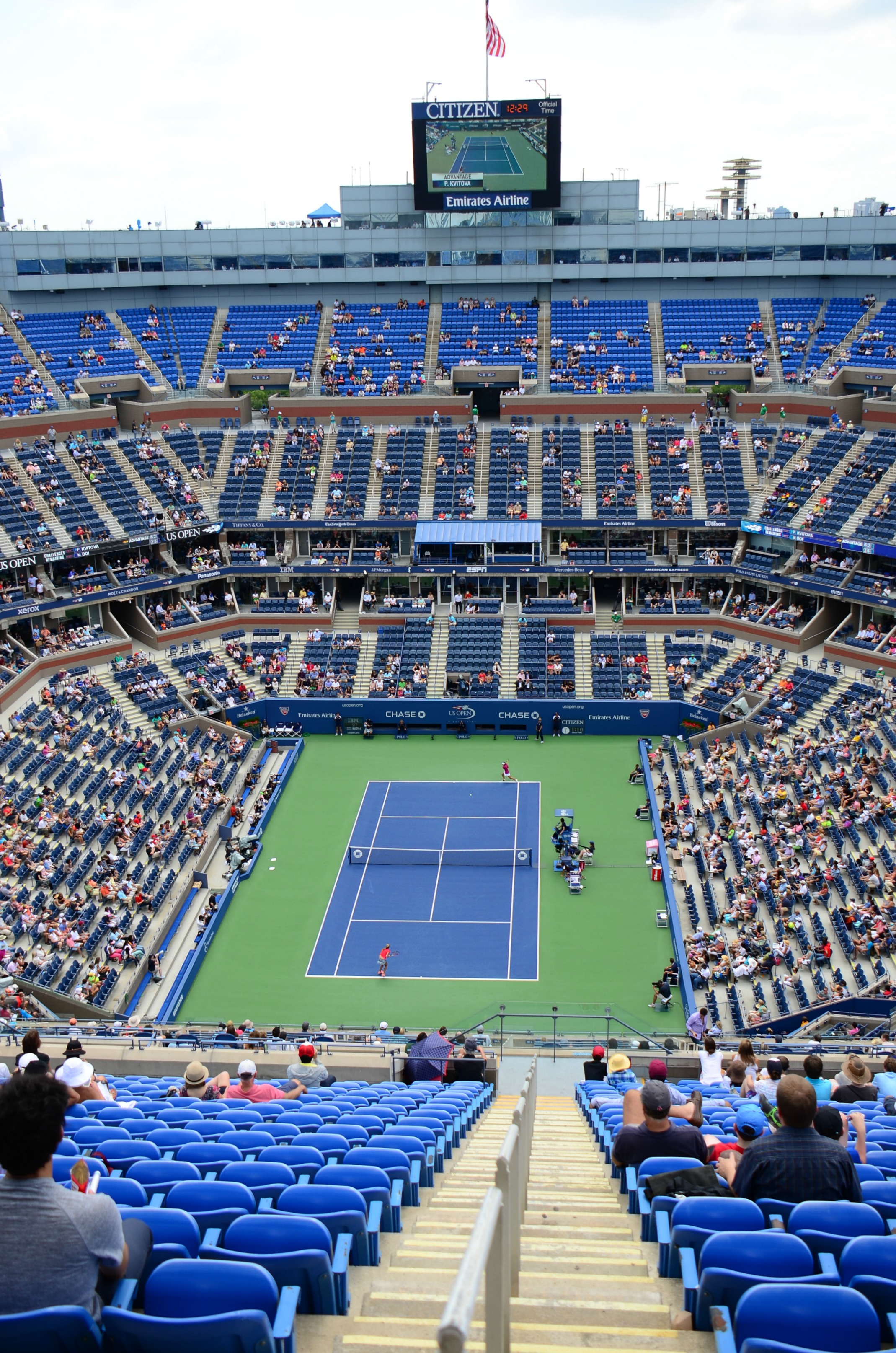 View From the Top of the Arthur Ashe Stadium